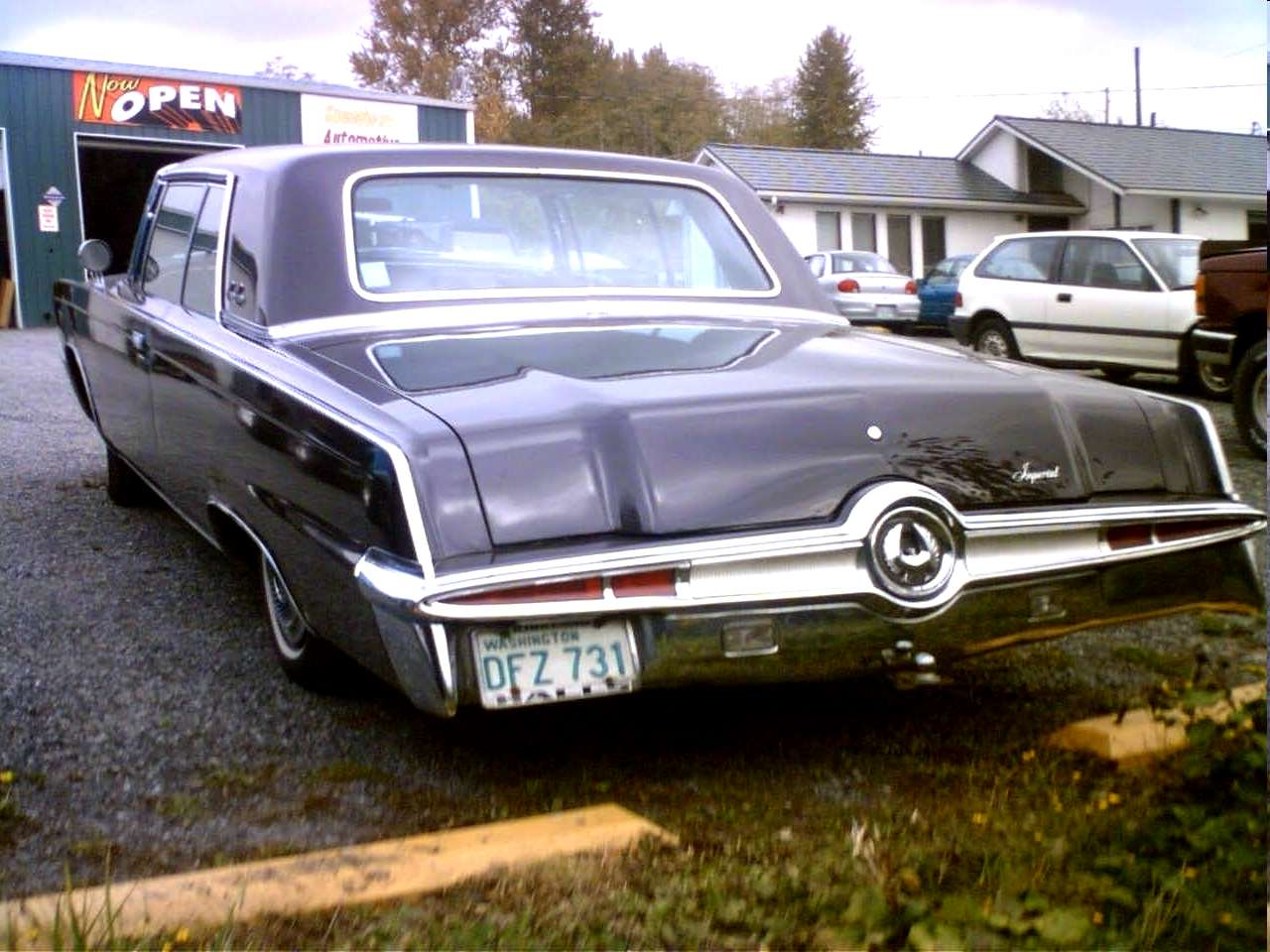 1966 Chrysler Imperial Rear